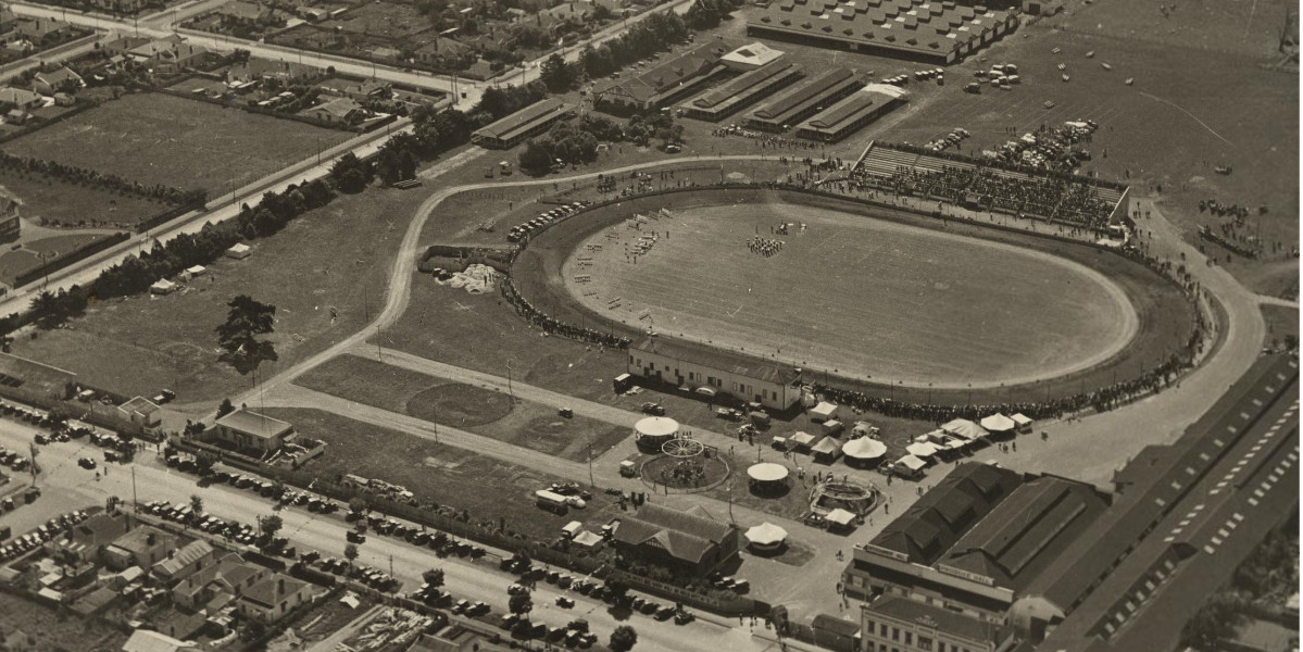 Aerial view of the parade ground and the associated buildings of the Palmerston North Showgrounds, which were established in 1886.